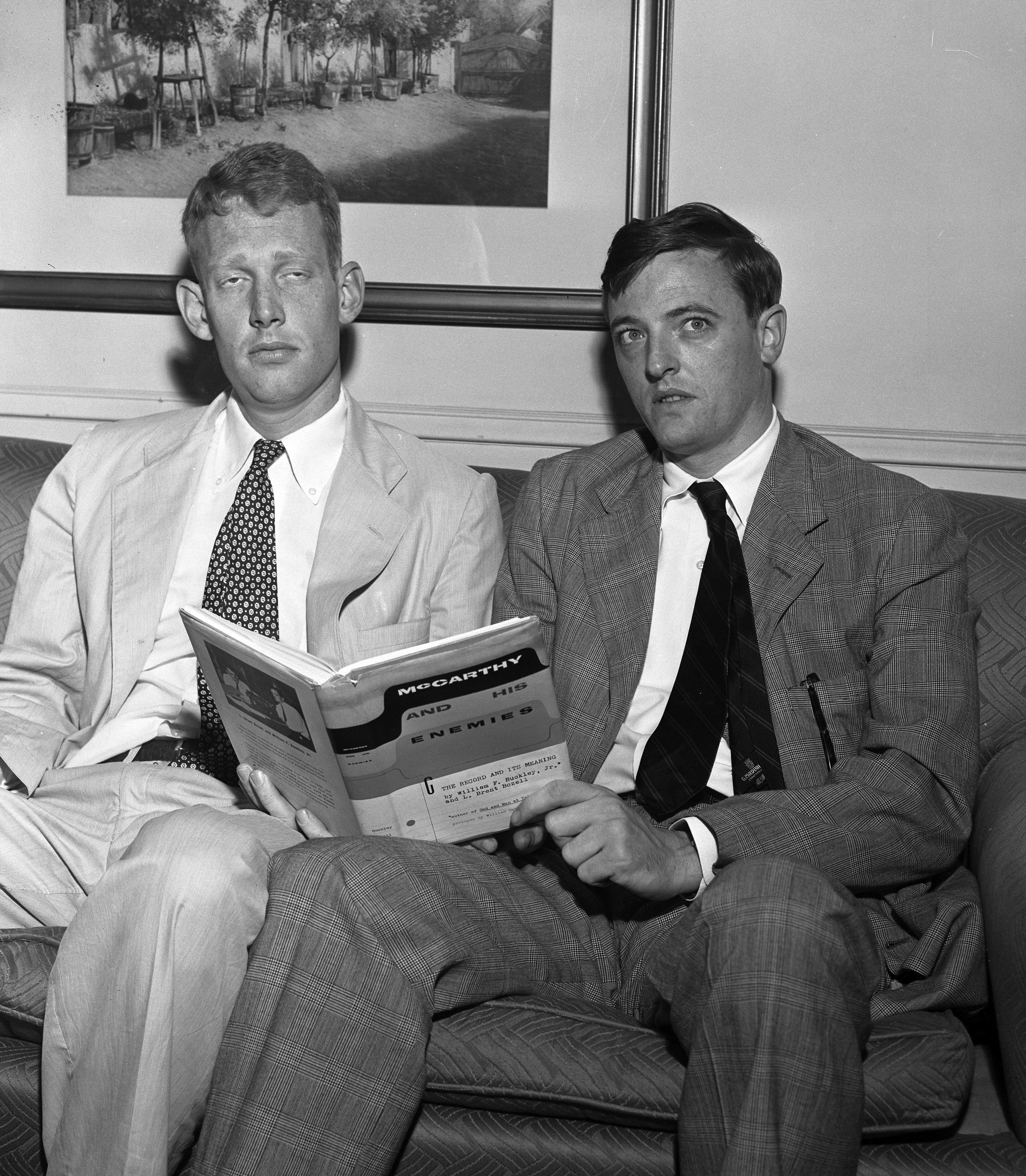 L. Brent Bozell and William F. Buckley, Jr. seated on couch with copy of their book "McCarthy and His Enemies" Los Angeles, Calif., 1954